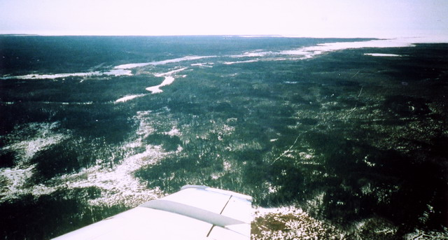 Aerial photograph of Poplar River (Saskatchewan) looking Southwest. Photograph taken by Mr. Leslie D. Bruce.